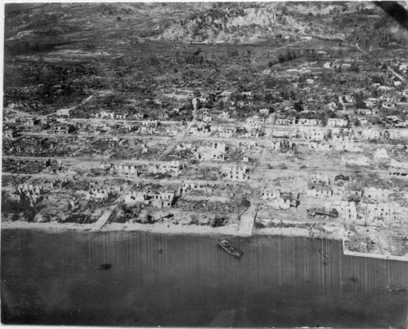 Saipan. Aerial view of Garapan, largest Jap city on Saipan, showing effects of bombing and naval fire. It is referred to as the "Casino of the Pacific" because of the bitter street fighting which took place there. July Laudansky [photographer?]. 10/01/194World War 2. W-CPA-44-6737 (ref:E44-78-31) ; the caption was transcribed from the original WW2 record.